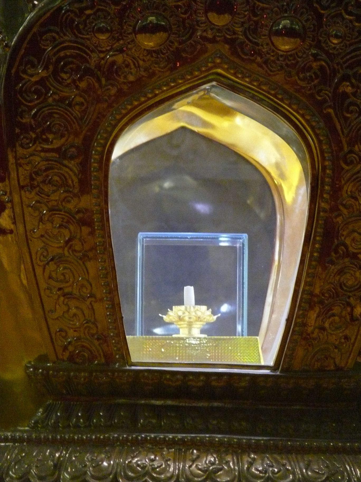 Famen temple in Shaanxi province (China)